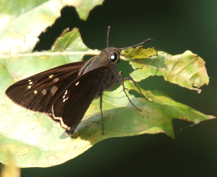 Rice Swift Borbo cinnara at Ananthagiri Hills, in Rangareddy district of Andhra Pradesh, India.